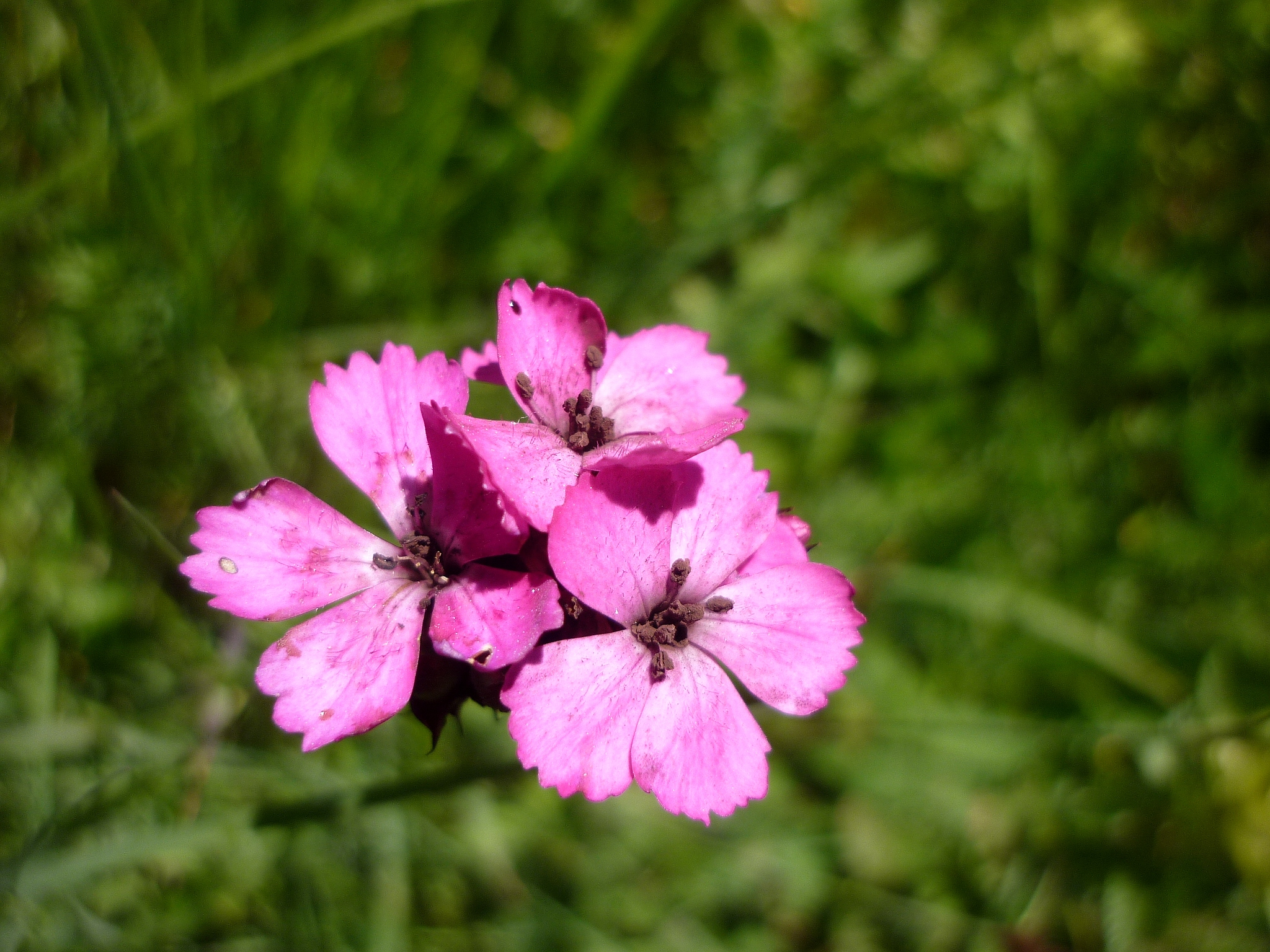 Dianthus barbatus. In Estana (Baixa Cerdanya-Catalunya). To 1.540 m. altitude